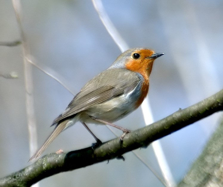 This image shows an European Robin (Erithacus rubecula).